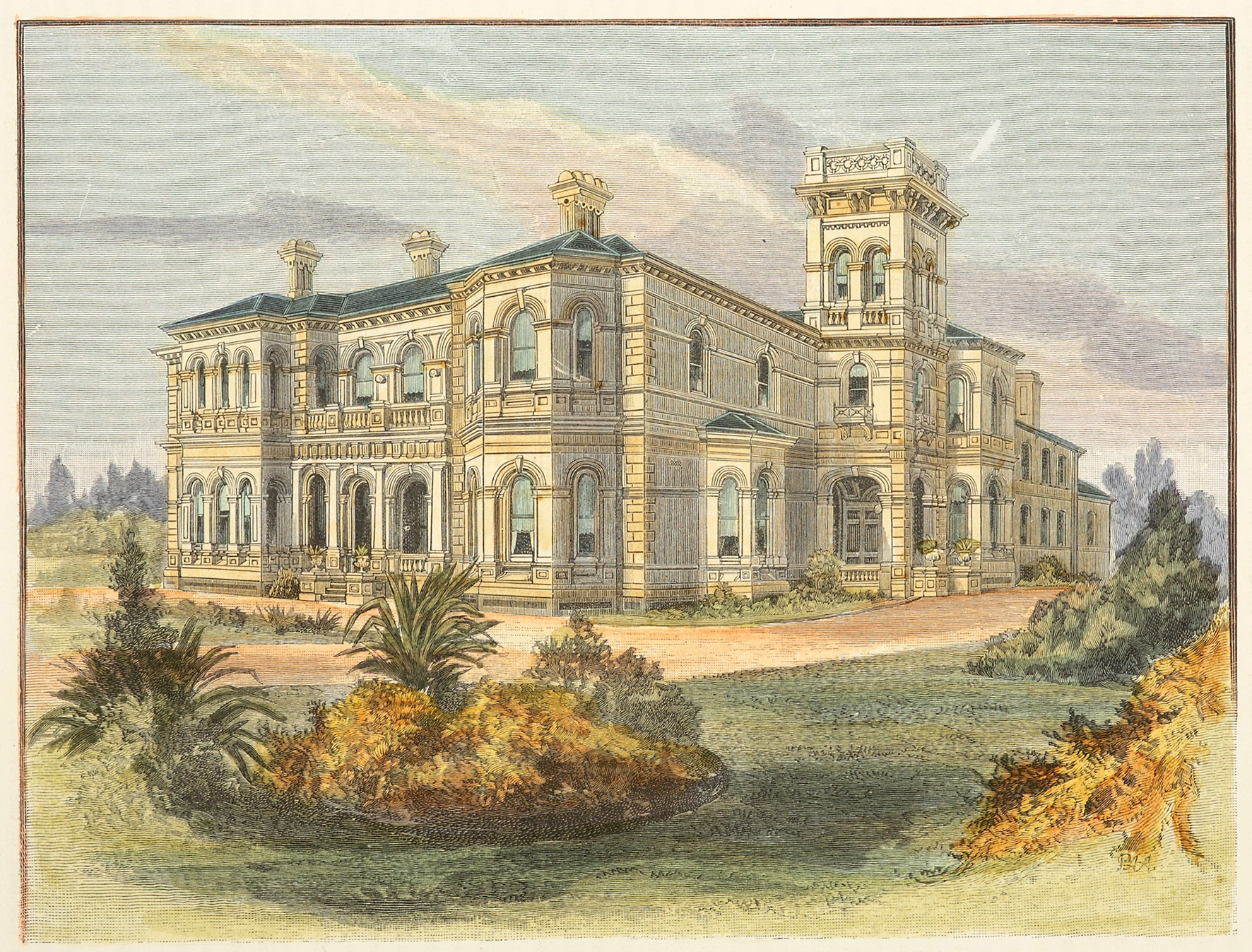 "Wombalano" John Munro Bruce's 30-room mansion in Toorak, Victoria. His son Stanley Bruce, a future Australian prime minister, grew up there.